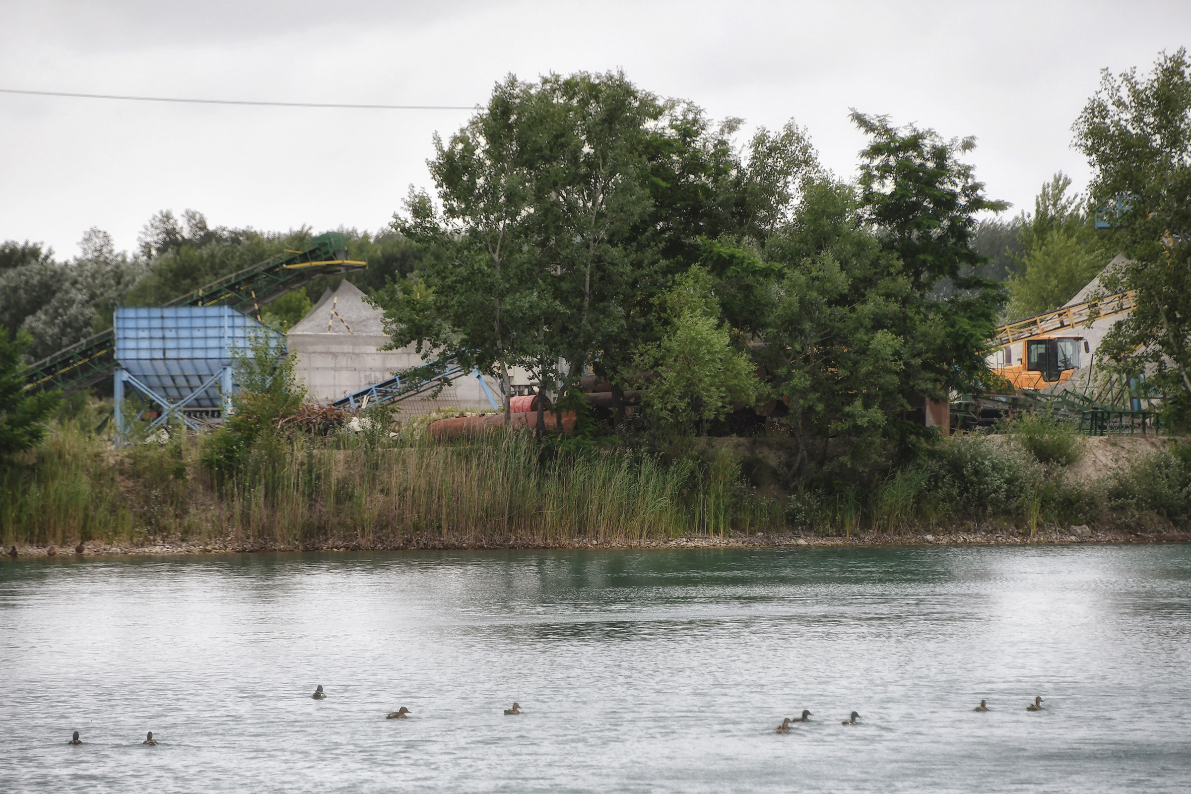 Southern quarry lake in Abda, Hungary